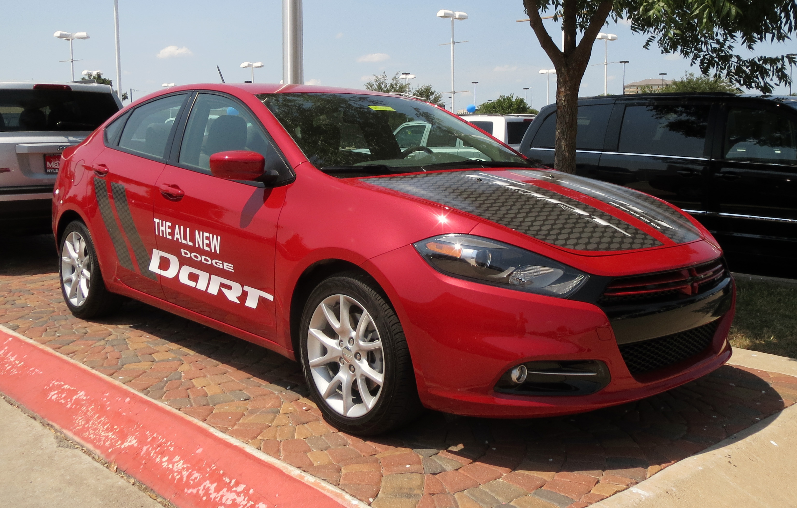 2013 Dodge Dart show model at an U.S. dealership (derivative cropped and enhanced work - see source for original).